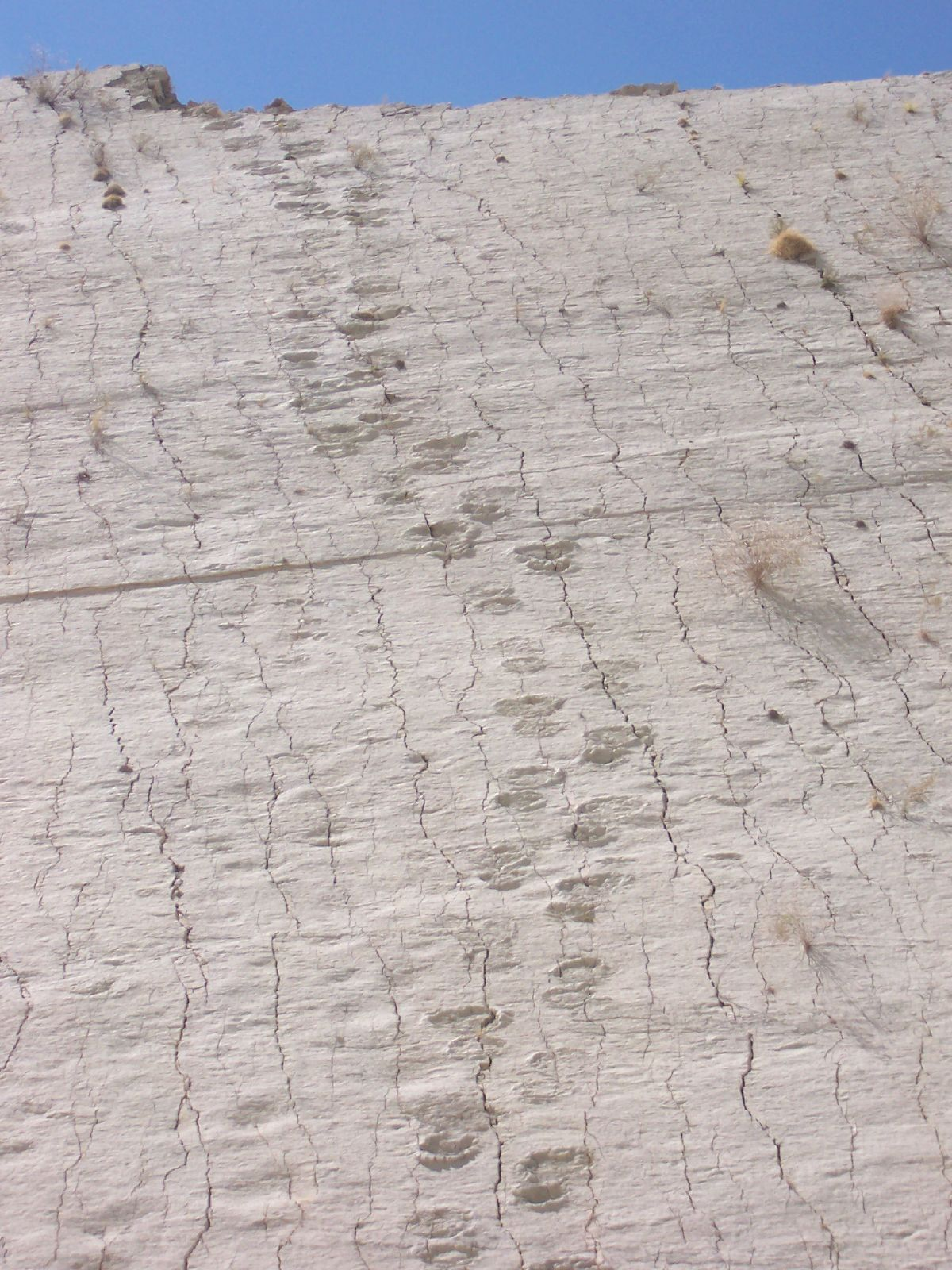 Dinosaur tracks in Bolivia.